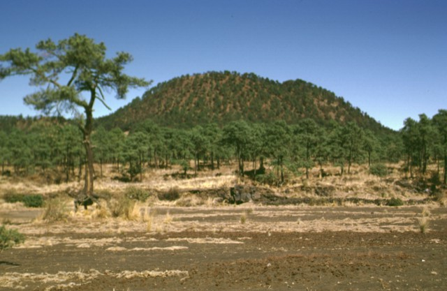 The forest-covered lava flows in the middle of the photo traveled short distances to the south from vents on the flank of Xitle, the scoria cone in the background. Most lava flows were directed by the topographic gradient to the north. Scoria-fall deposits from the 150-m-high Xitle pyroclastic cone mantle the foreground and overlie parts of the lava flows.